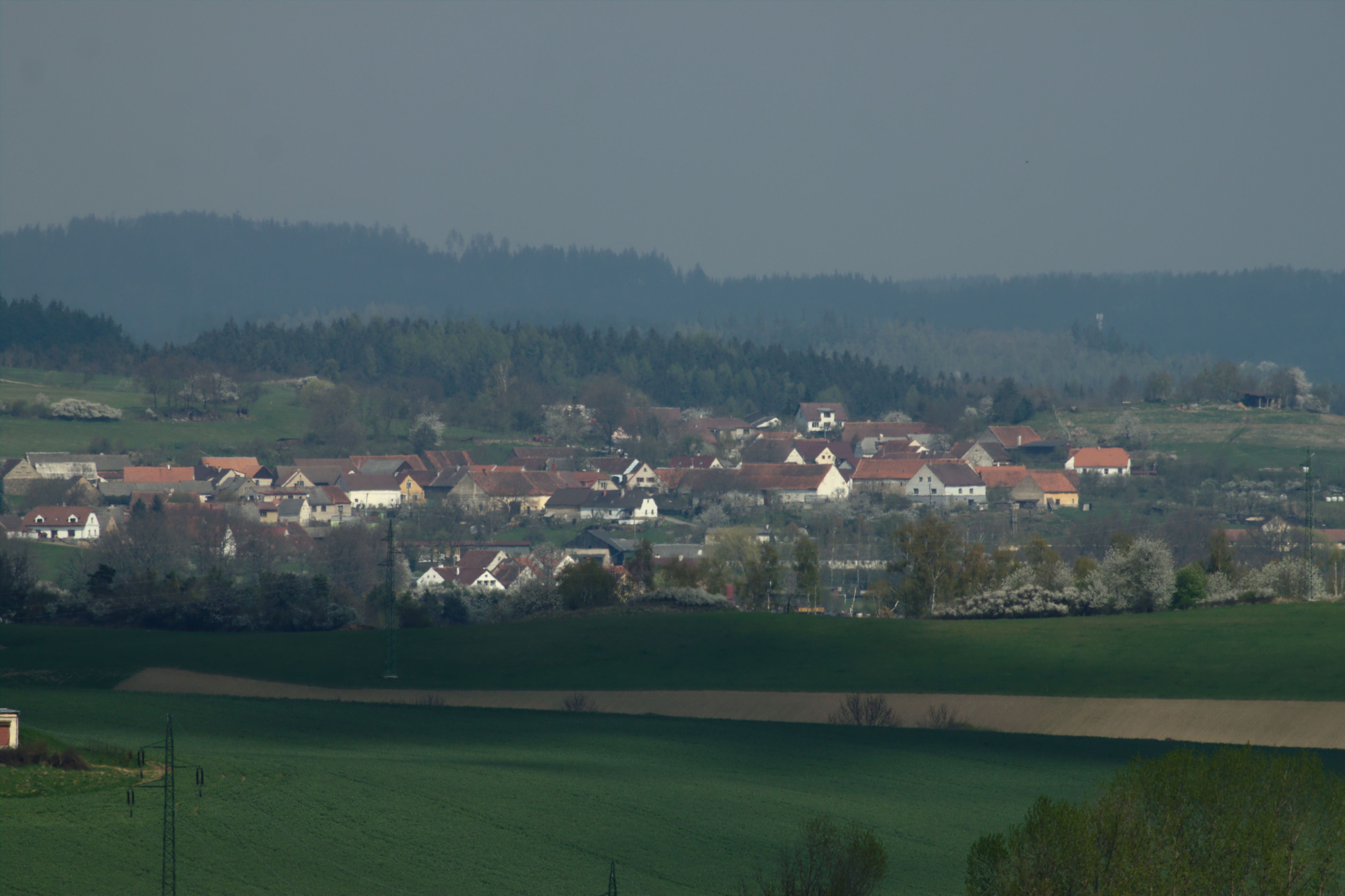 View of the village of Čejkovy, Plzeň Region, CZ